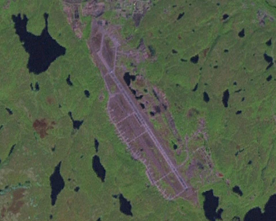 Severomorsk-1 airfield, former Soviet Union.